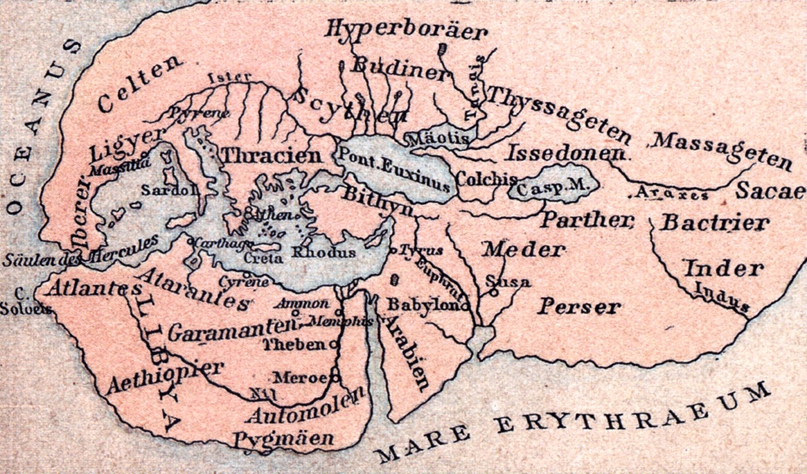 the ancient world of Herodotus